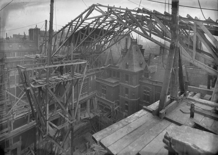 Travaux grand hall - Grand lobby works - 1921 - (3)